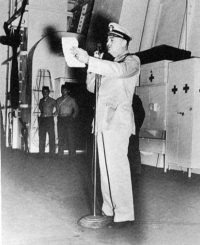 United States Navy Captain (later Rear Admiral) Thomas H. Robbins